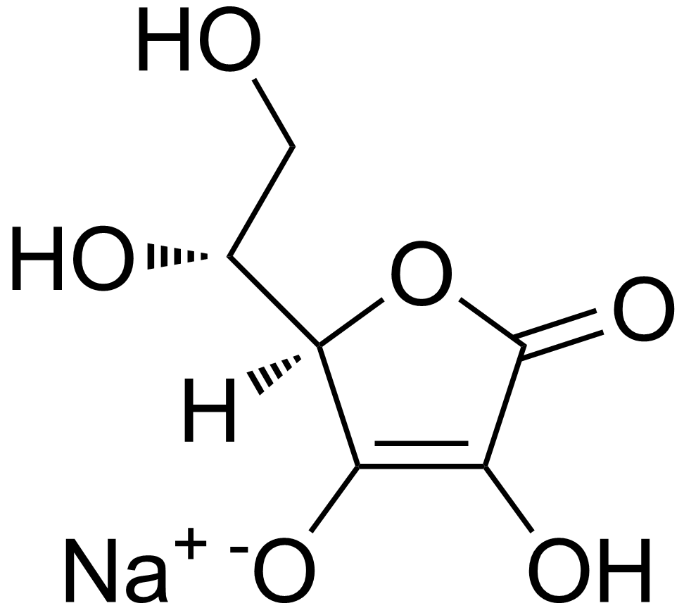 chemical structure of sodium erythorbate